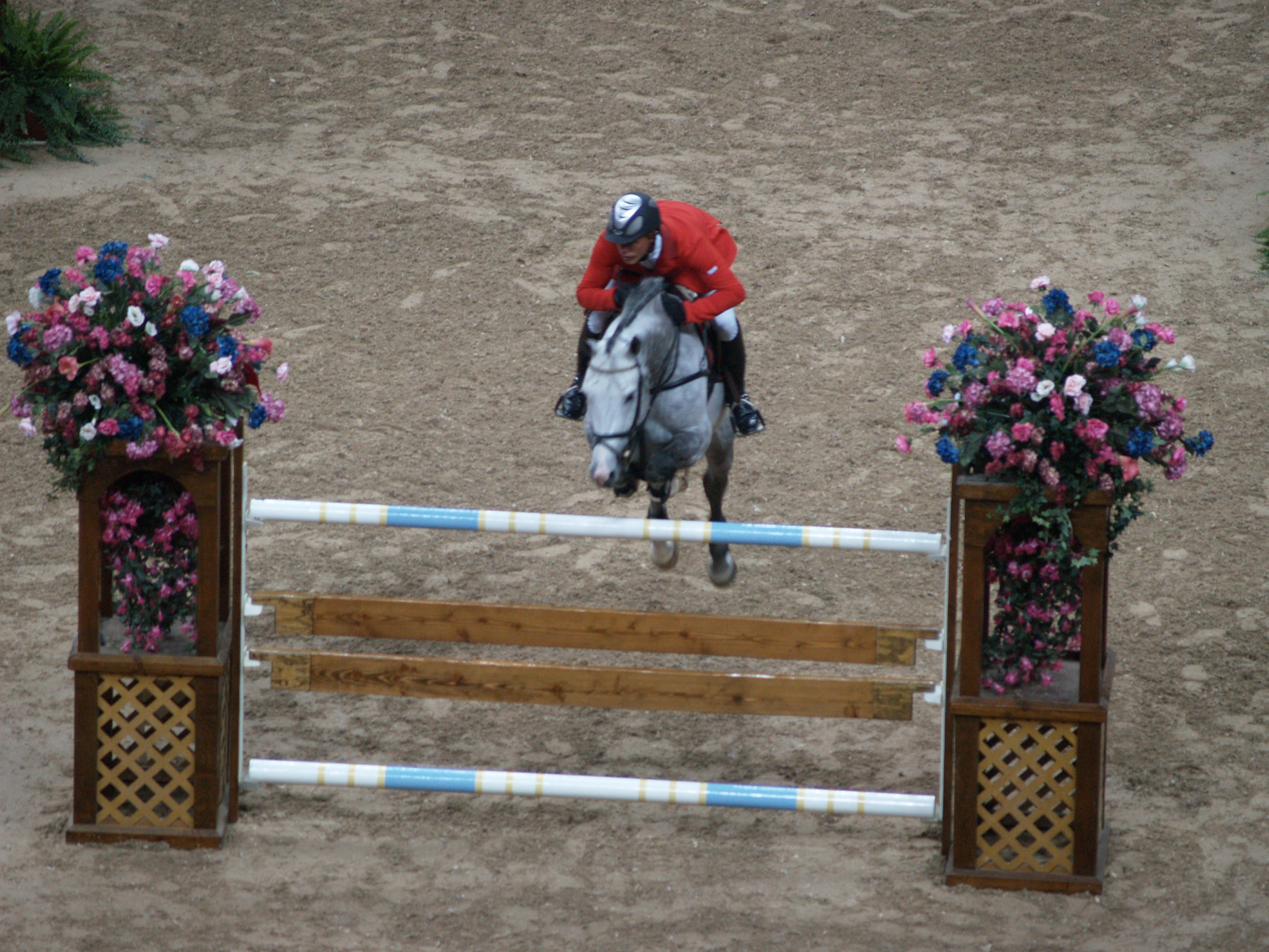 Rene Tebbel representing Germany riding Team Harmony Coupe de Couer